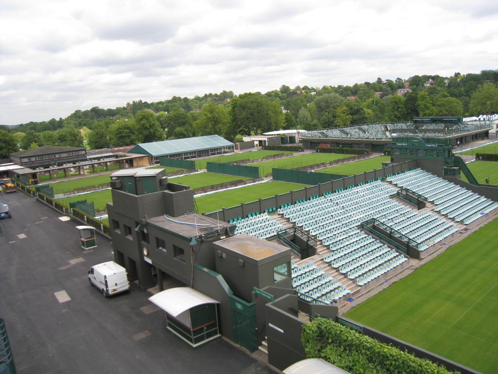 Wimbledon outside courts with #2 court in the background.